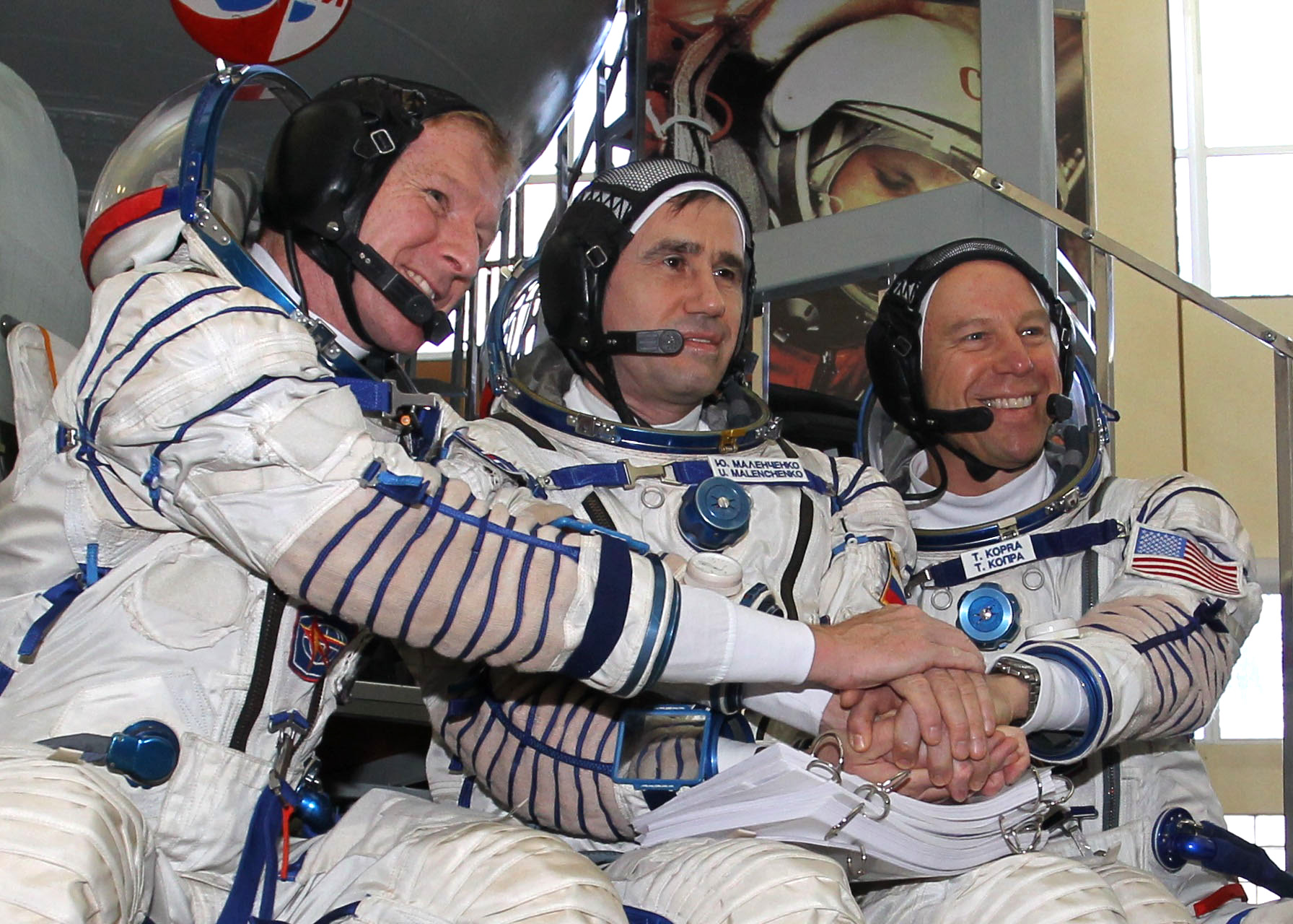 At the Gagarin Cosmonaut Training Center in Star City, Russia, Expedition 44/45 backup crewmembers Timothy Peake of the European Space Agency (left), Yuri Malenchenko of the Russian Federal Space Agency (Roscosmos, center) and Timothy Kopra of NASA (right) pose for pictures in front of a Soyuz spacecraft simulator May 6 as part of their final qualification exams for flight. They are the backups to the prime crew --- Kjell Lindgren of NASA, Oleg Kononenko of Roscosmos and Kimya Yui of the Japan Aerospace Exploration Agency --- who are in the final stages of training for launch May 27, Kazakh time, in the Soyuz TMA-17M spacecraft to begin a five and a half month mission to the International Space Station.